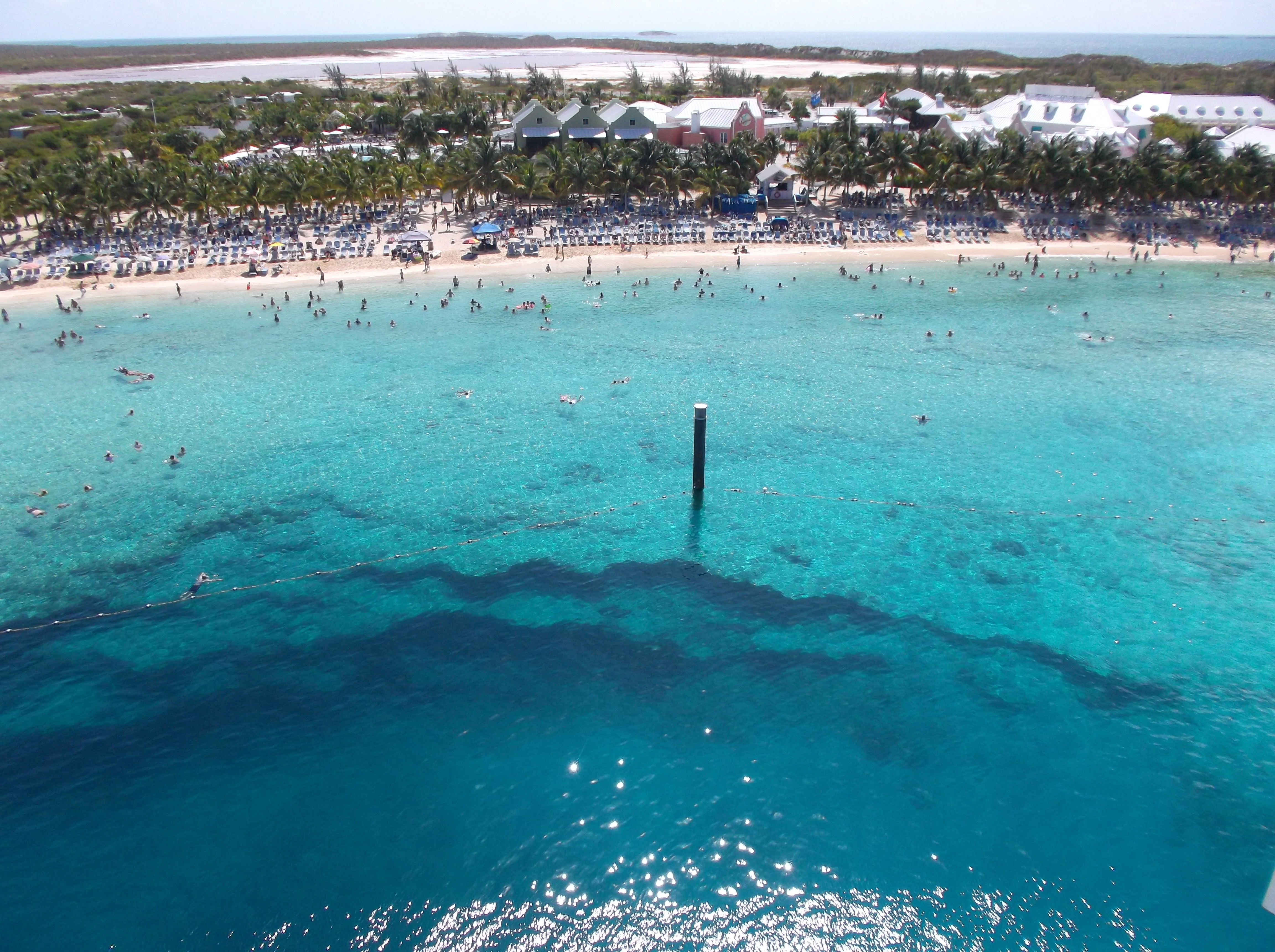 Sunray Beach, Grand Turk